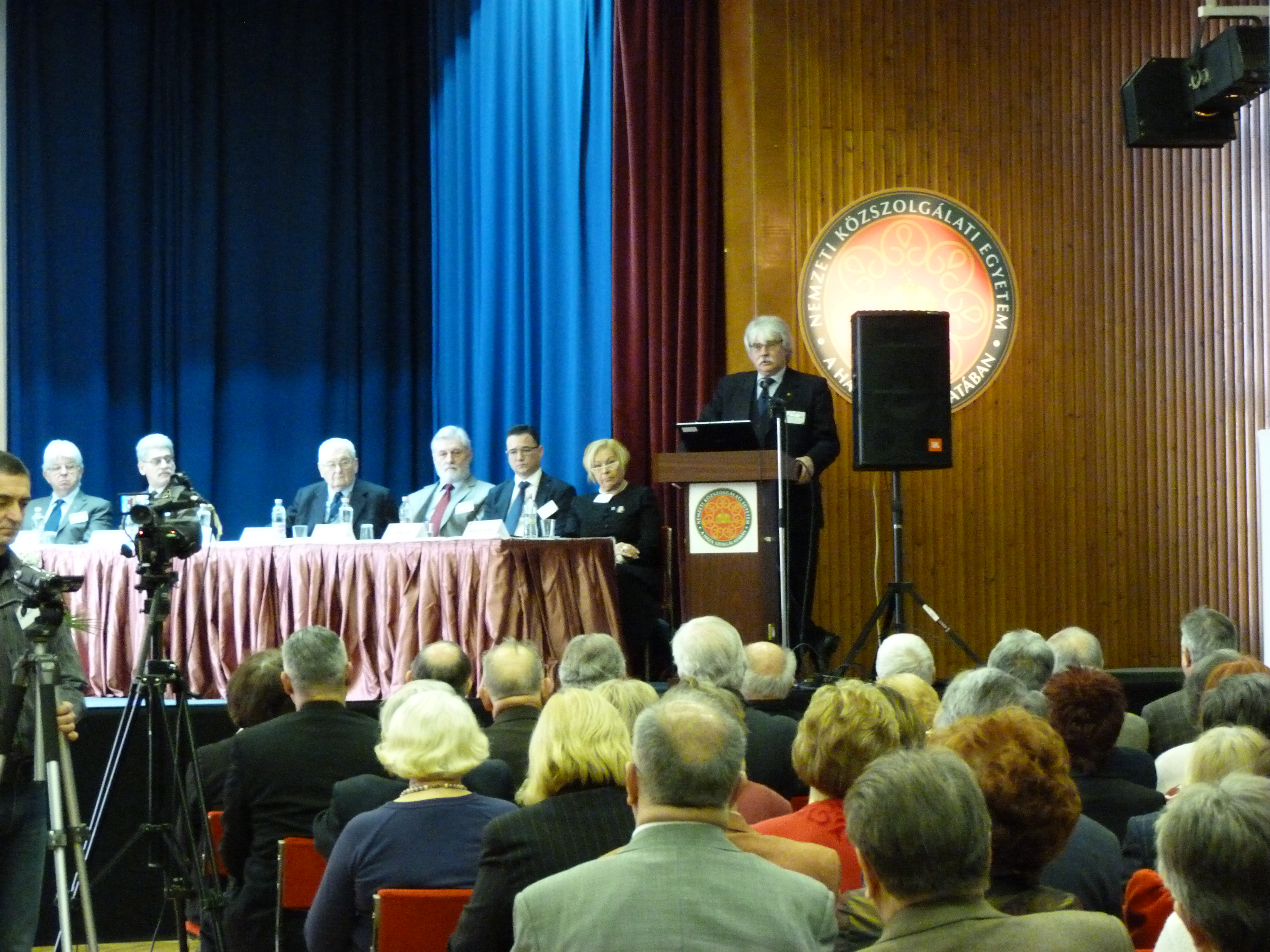 Live on Saturday, the 16th of January, 2016. Budapest, Hungary. Conference of the Horthy Miklós Foundation. Society and culture in Hungary, between the two world wars. Szakály Sándor.